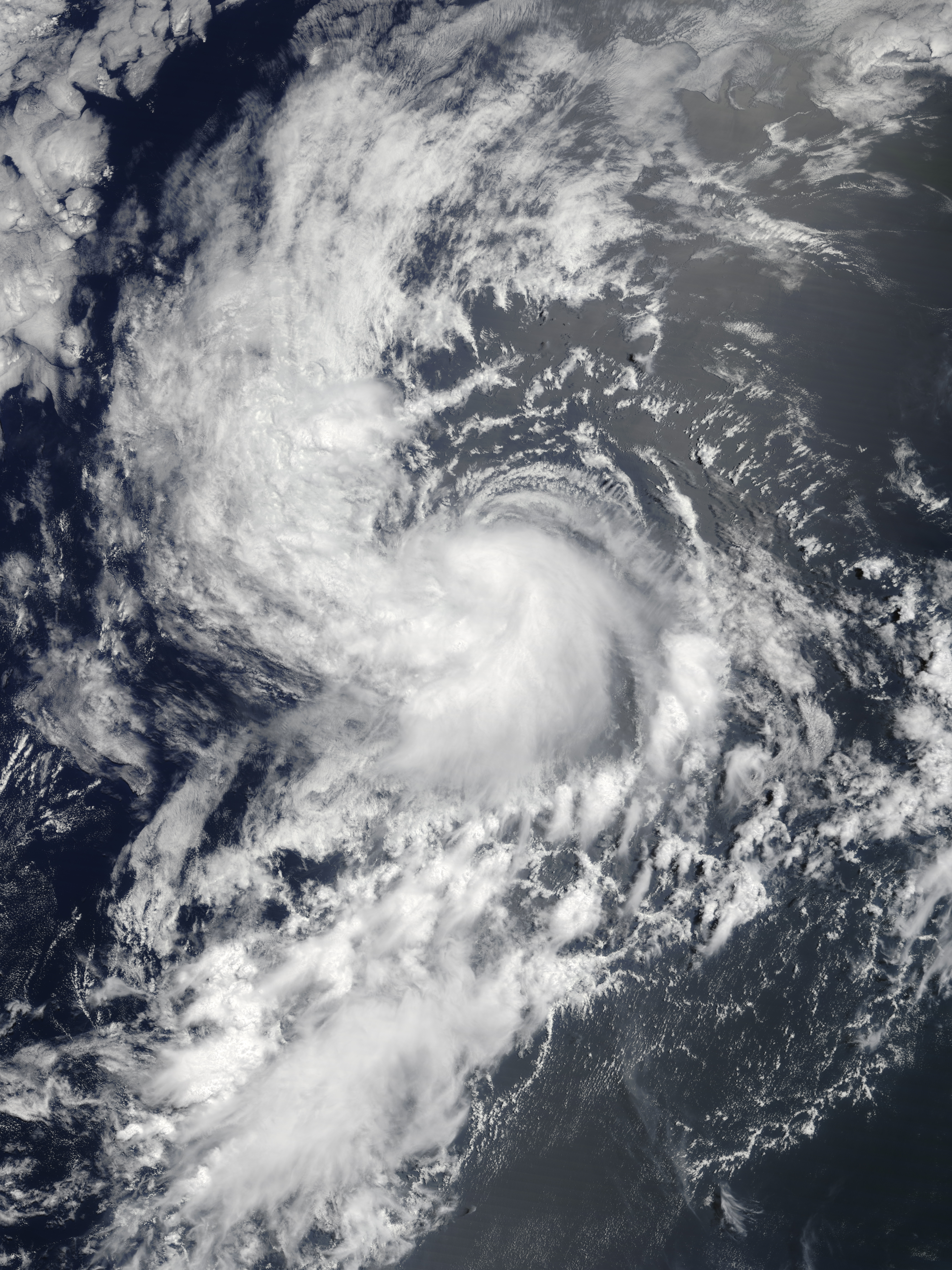 Tropical Storm Daniel on June 24, 2018